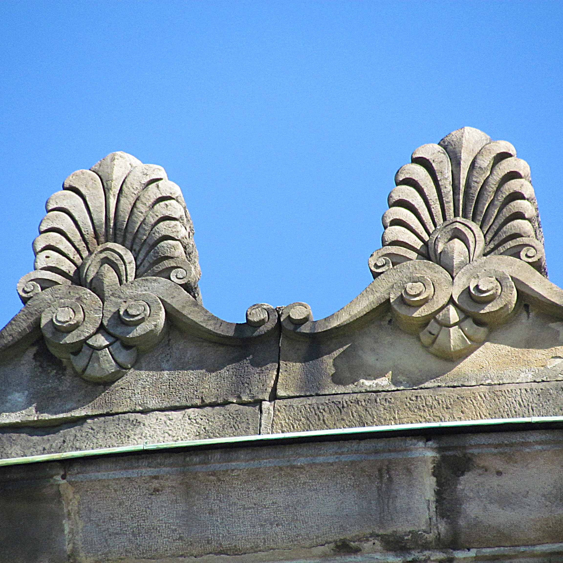 Antefixes on Historian museum of Serbia building, Belgrade